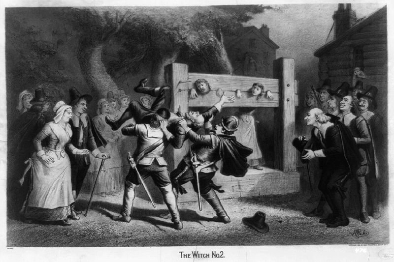 "The Witch, No. 2"